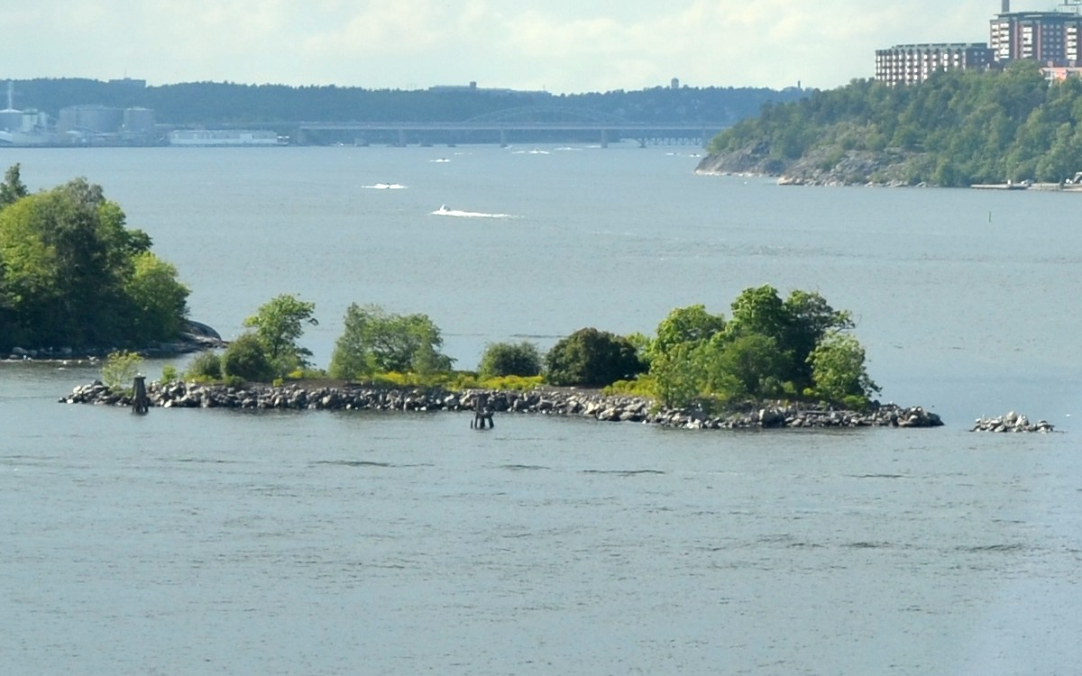 Robbers isle, the smallest of the feather isles in Stockholm harbour.